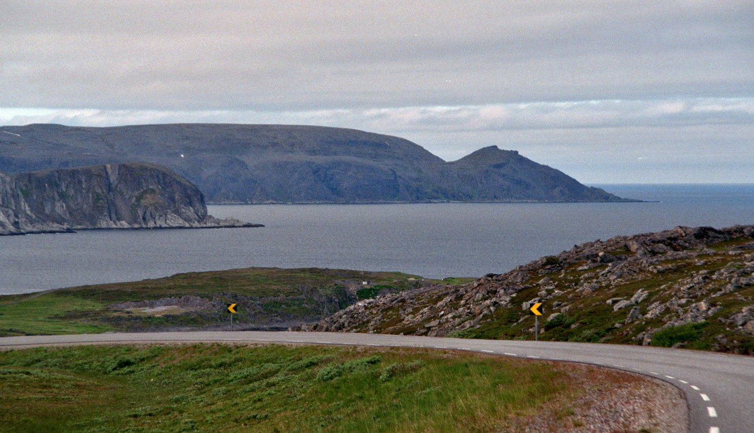 Between Gamvik and Mehamn / Nordkinnpeninsula / Finnmark / Norway